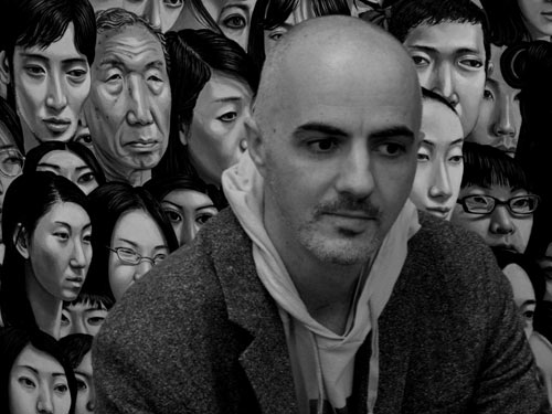 Carl Randall - British figurative painter; National Portrait Gallery London prize winner; Slade School of Fine Art graduate. Recent work inspired by modern Japan. This image shows the artist in Japan in front of his painting 'Tokyo Portrait'